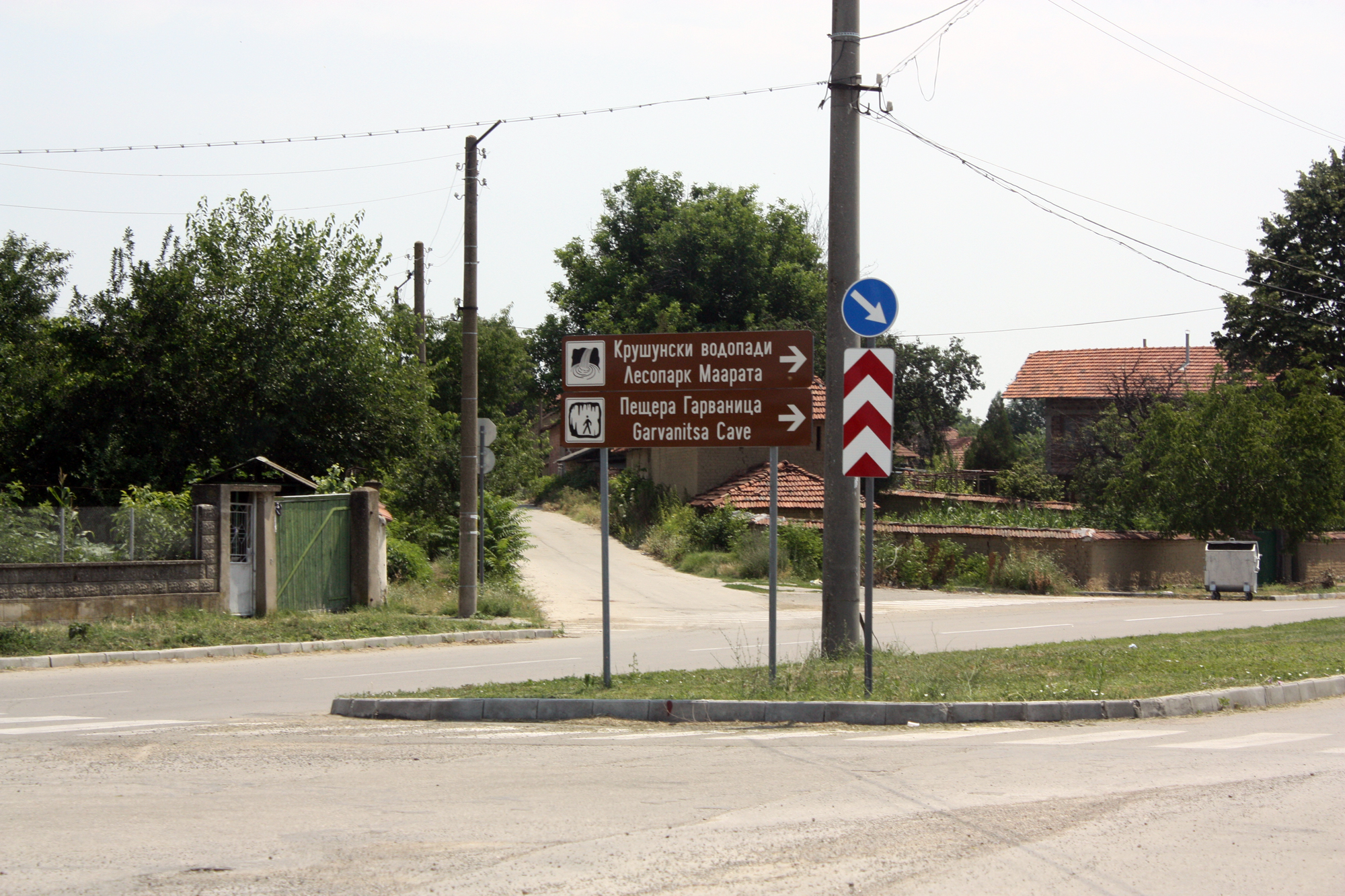 Entrance of Letnitsa with road signs to the nearby cave and waterfalls